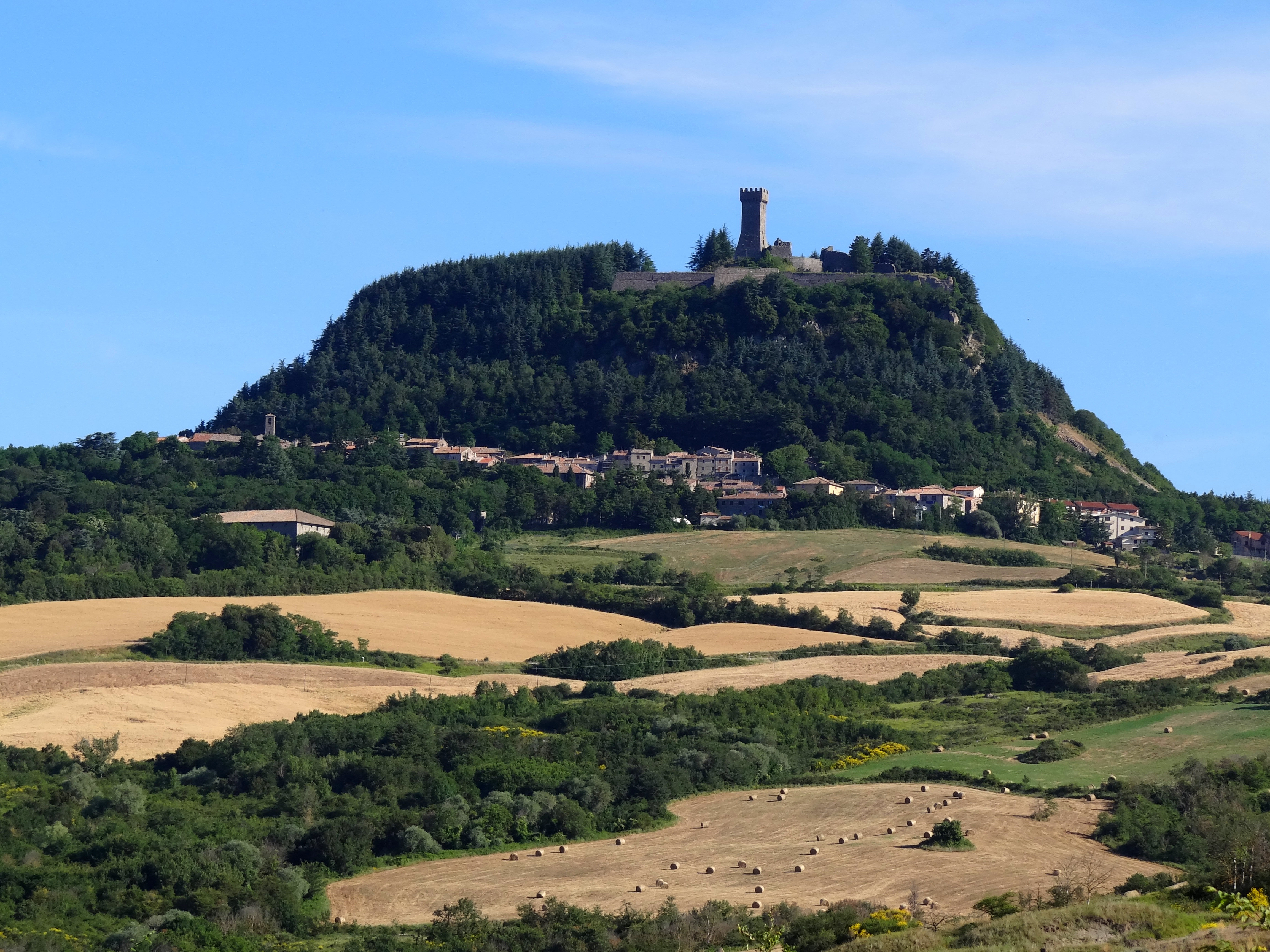 Radicofani seen from Via Francigena from the south.